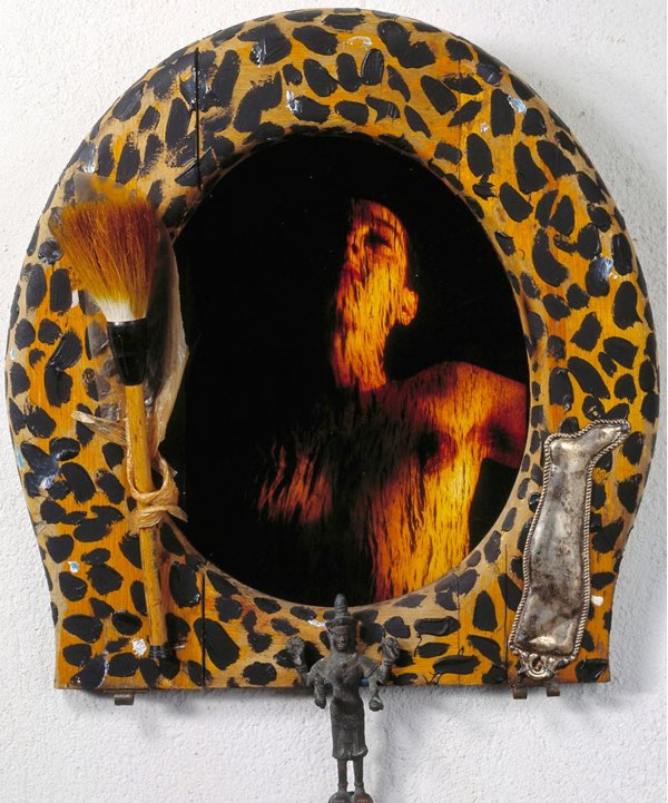 A mixed media artwork by Marita Liulia.